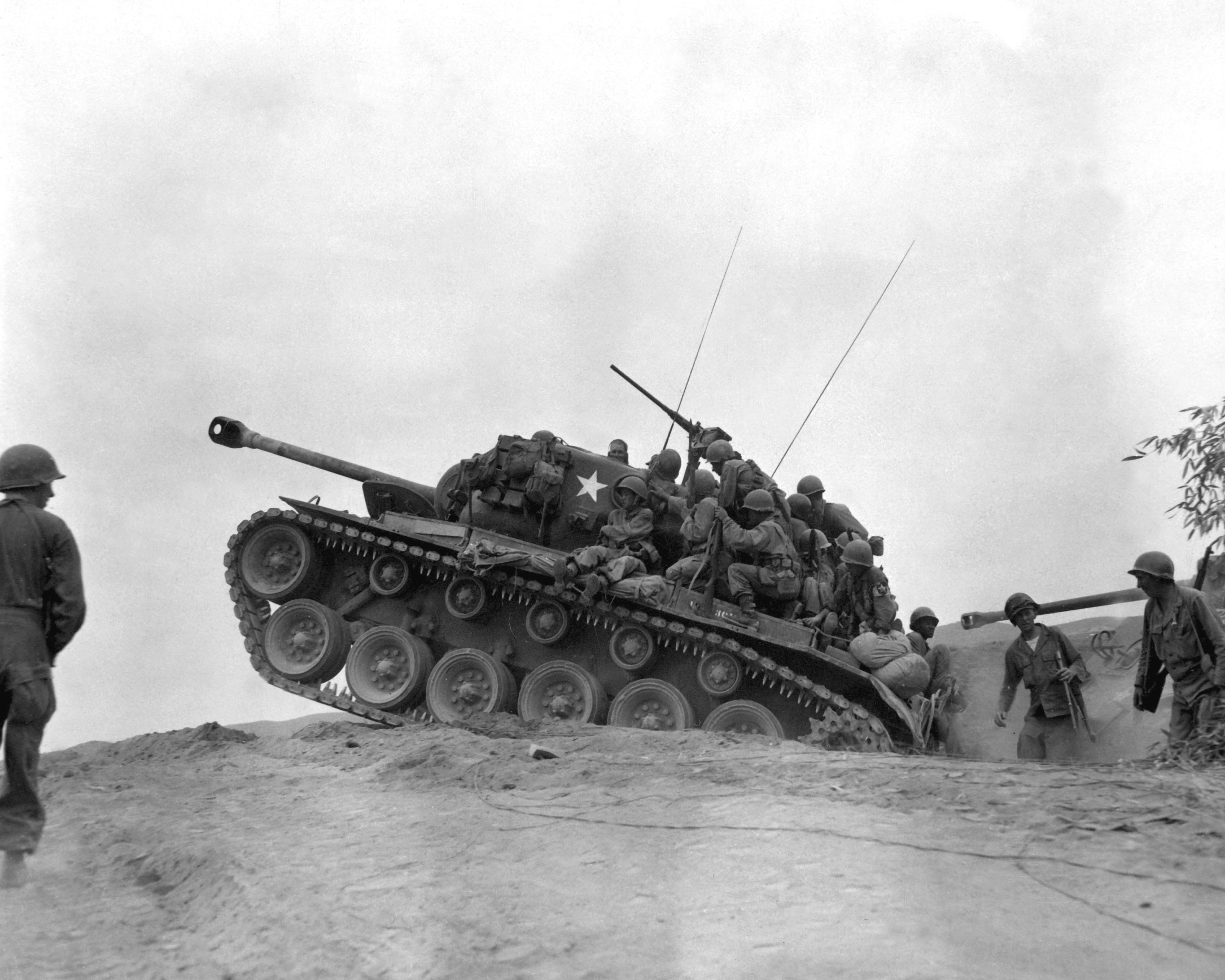 Men of the 9th Infantry Regiment man an M26 Pershing to await an enemy attempt to cross the Naktong River. September 3, 1950.